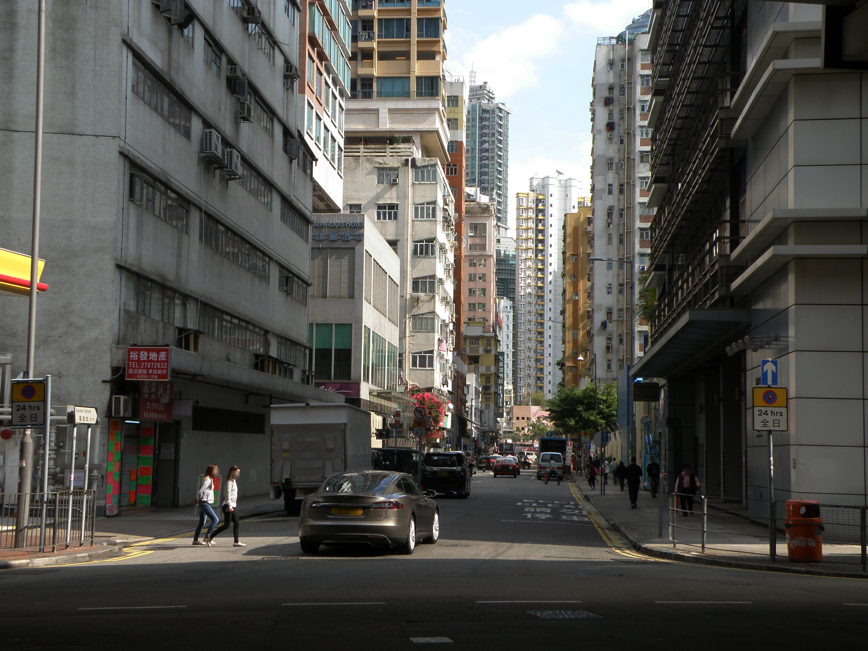 Anchor Street in Tai Kok Tsui, Hong Kong.